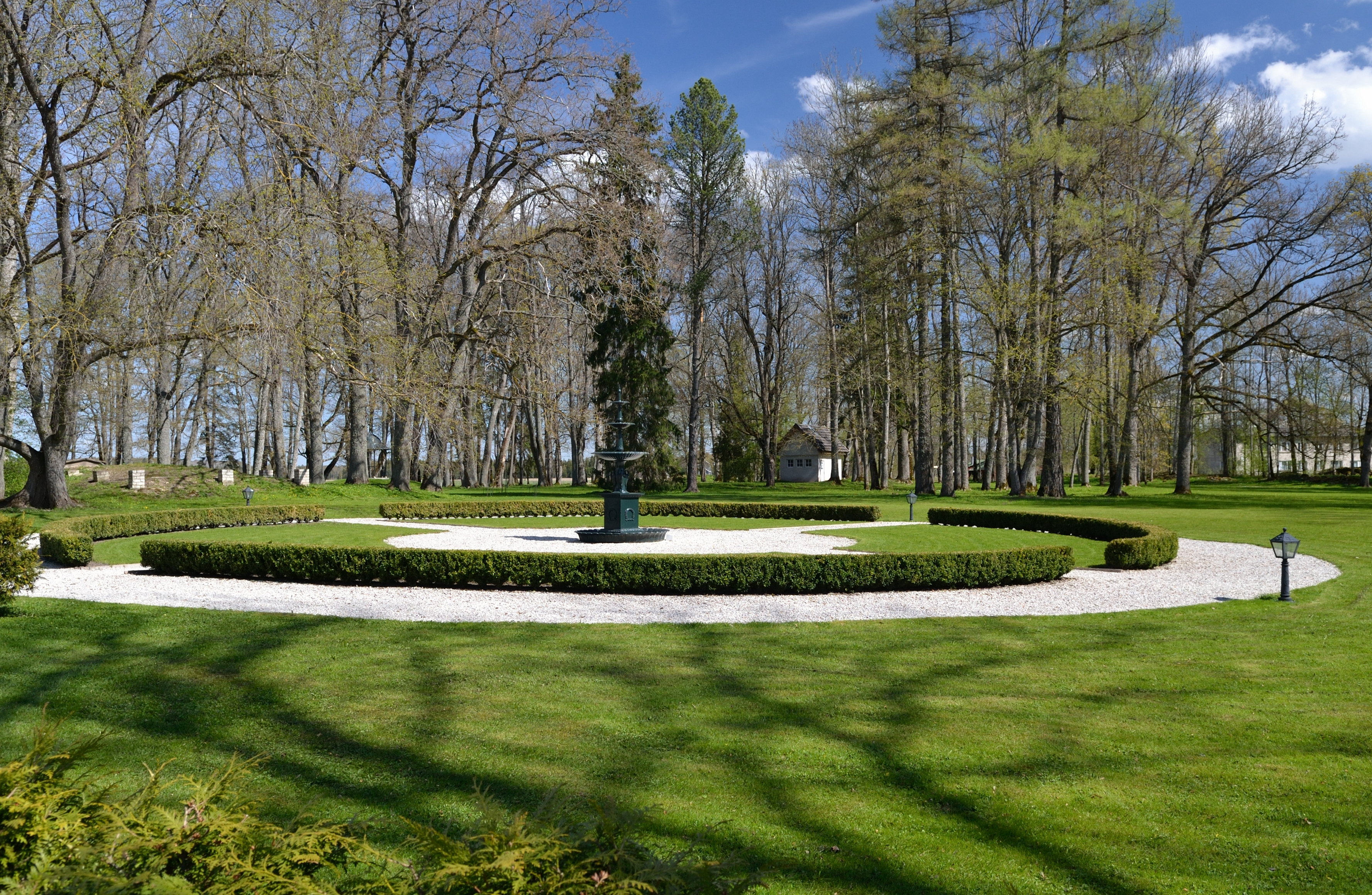 Eivere manor park